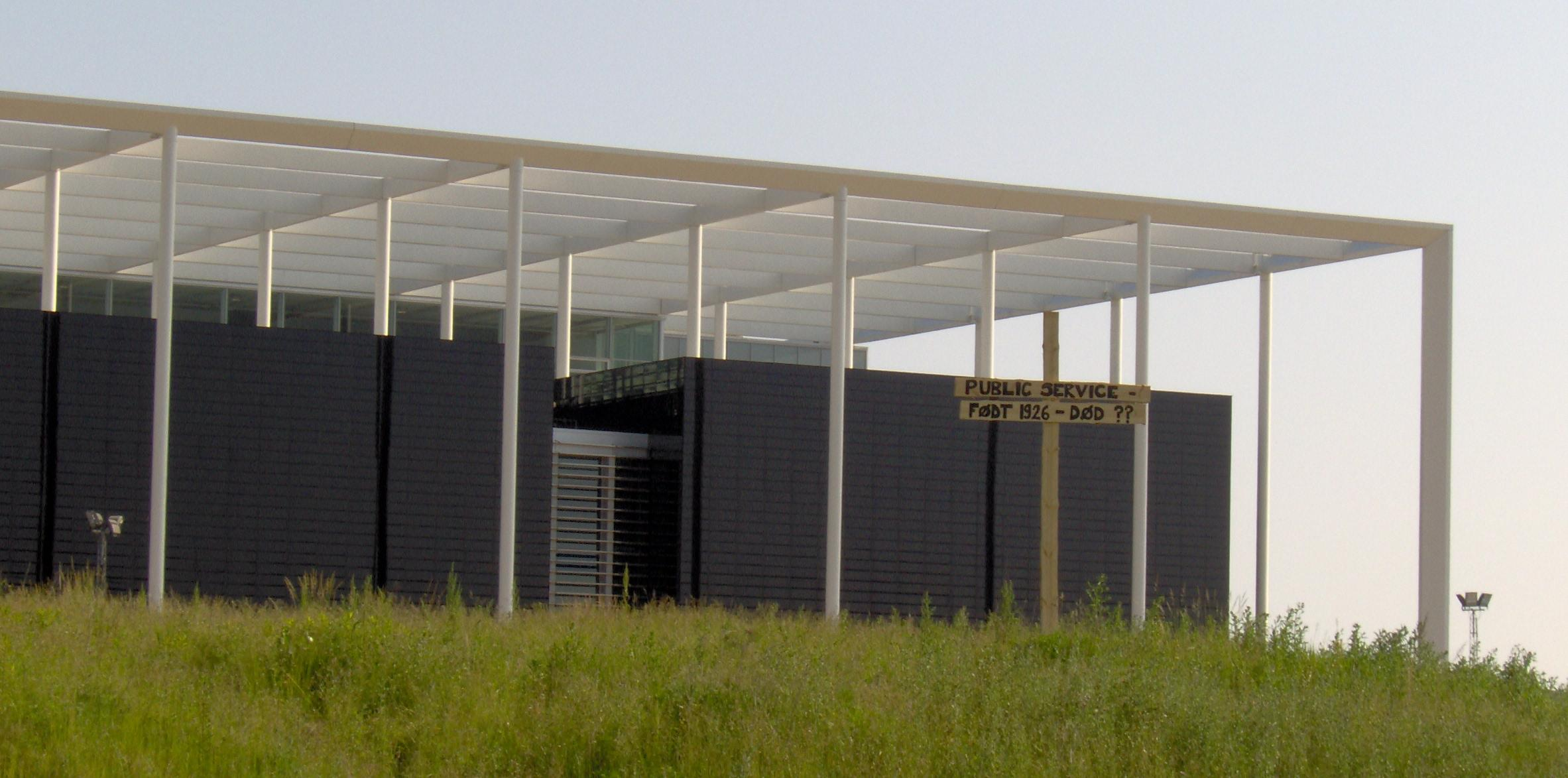 Employees in Danmarks Radio's protest over savings.